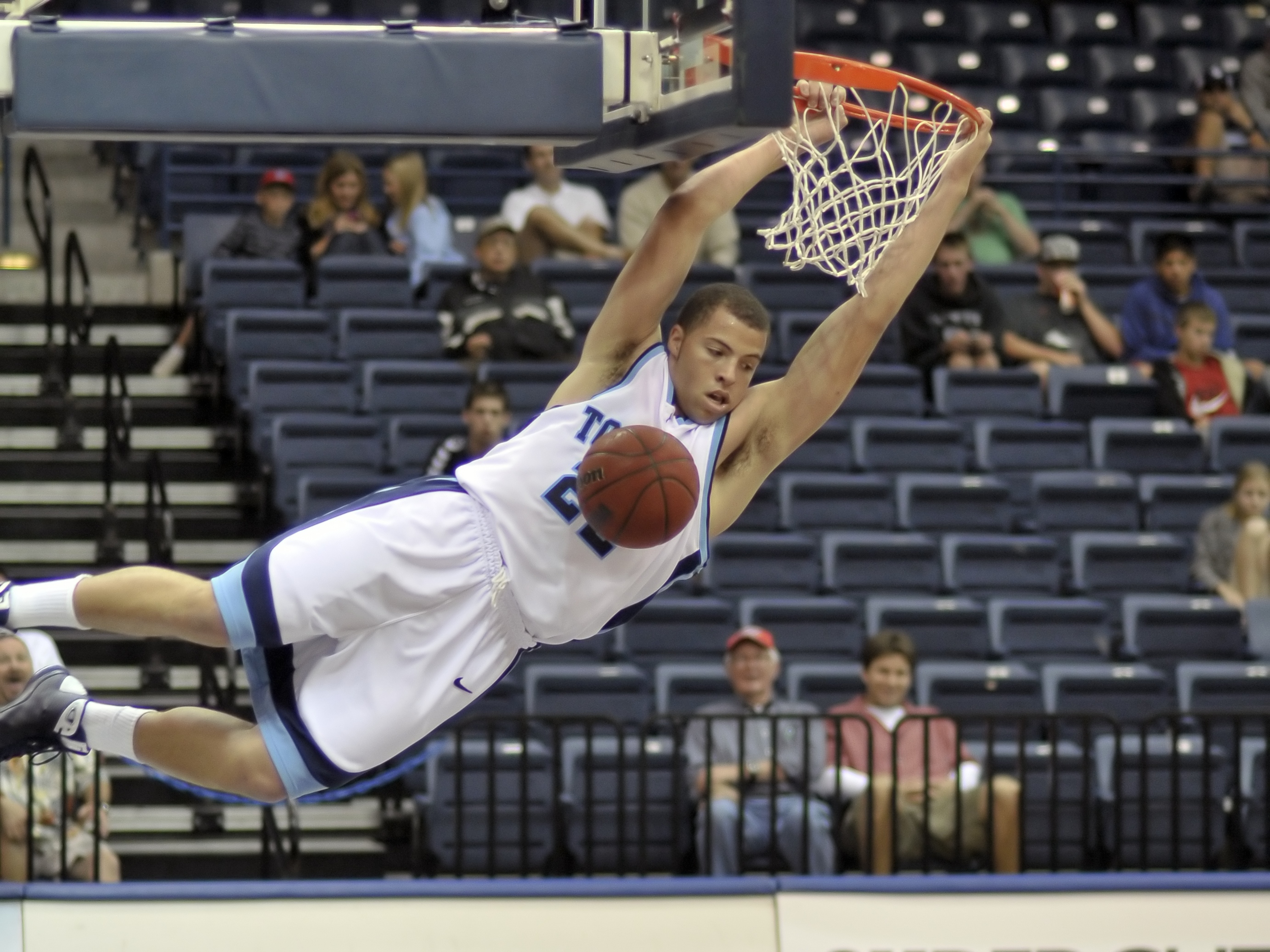 Rob Jones, forward for the University of San Diego Toreros college basketball team, hangs on the rim after dunking the ball, in a game on 11/29/08 against SD Christian.